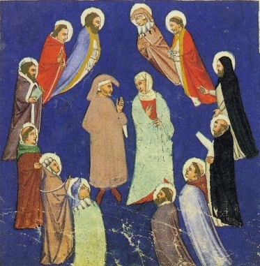 Illustration of Dante's Paradiso, canto X, first circle of the 12 teachers of wisdom led by Thomas Aquinas